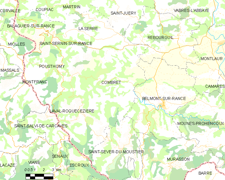 Map commune FR insee code 12069.png - Combret